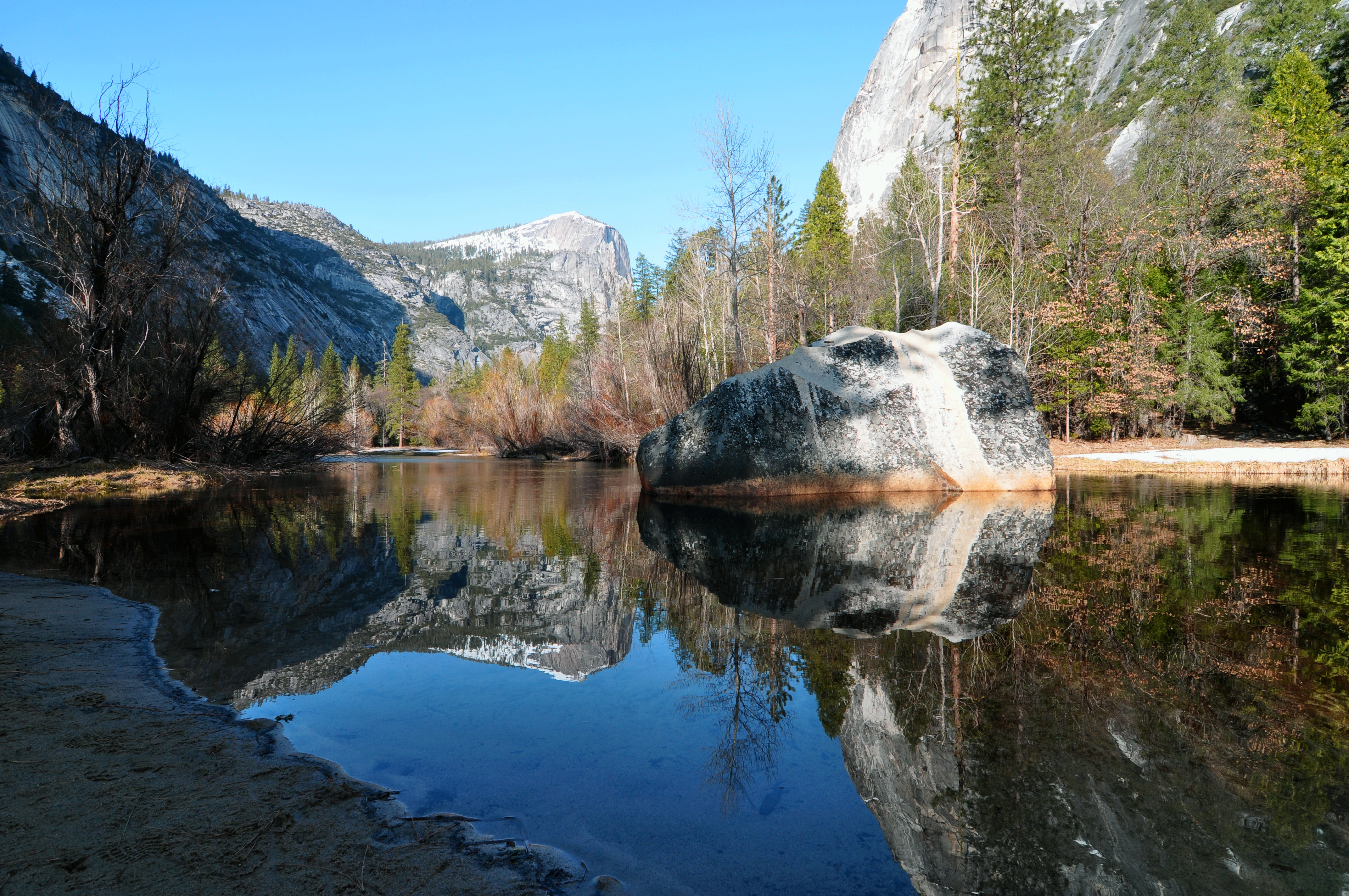 yosemite national park mirror lake 2010 winter